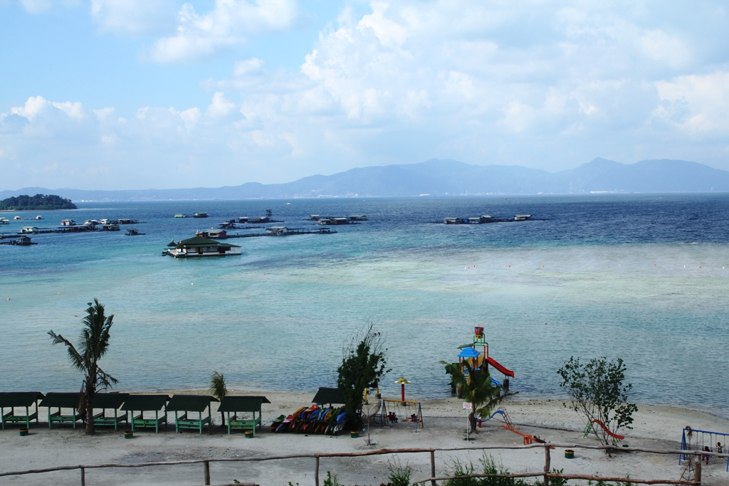 Floating Mosque in Lampung Province.